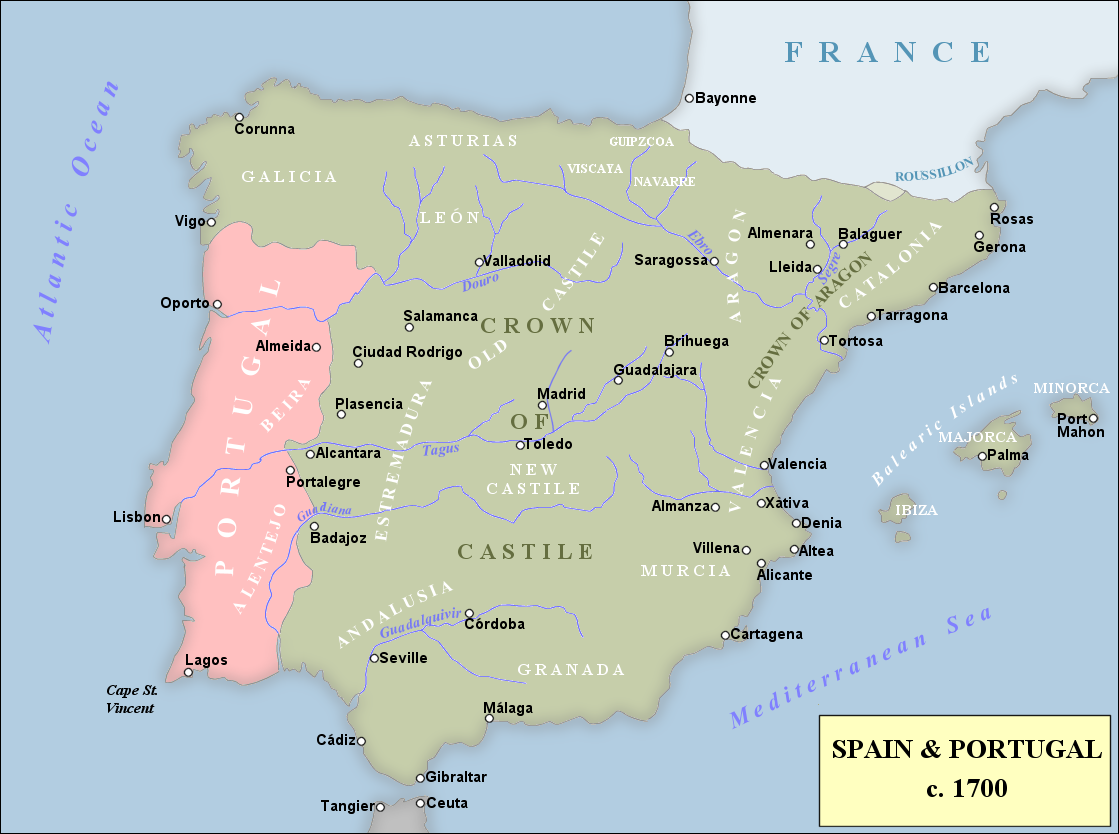 Spain in the early 18th century